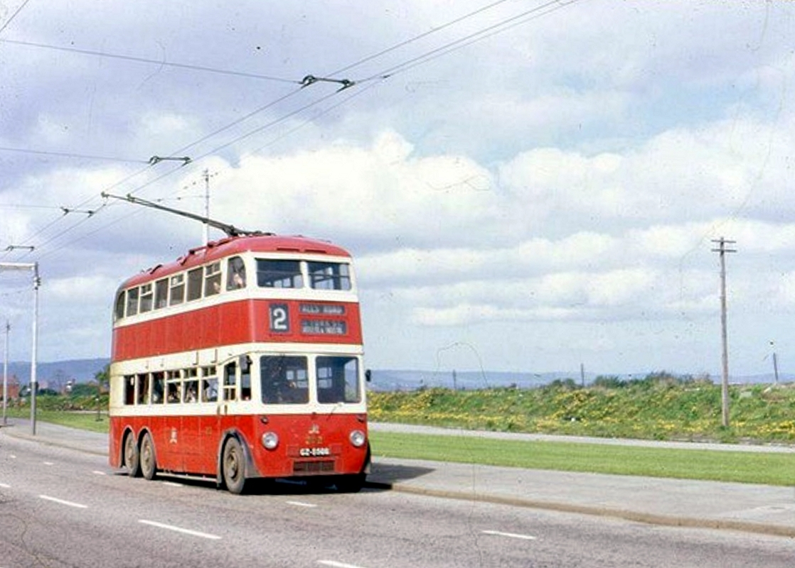 Old Trolley Bus The last trolley bus to operate in Northern Ireland was #202 GZ8566, is travelling along the Shore Rd, towards Belfast passing an area of waste ground that later became Loughside Park